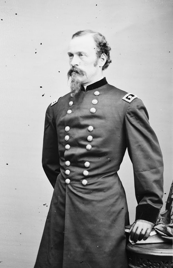 Portrait of Maj. Gen. (as of May 6, 1865) James H. Wilson, officer of the Federal Army